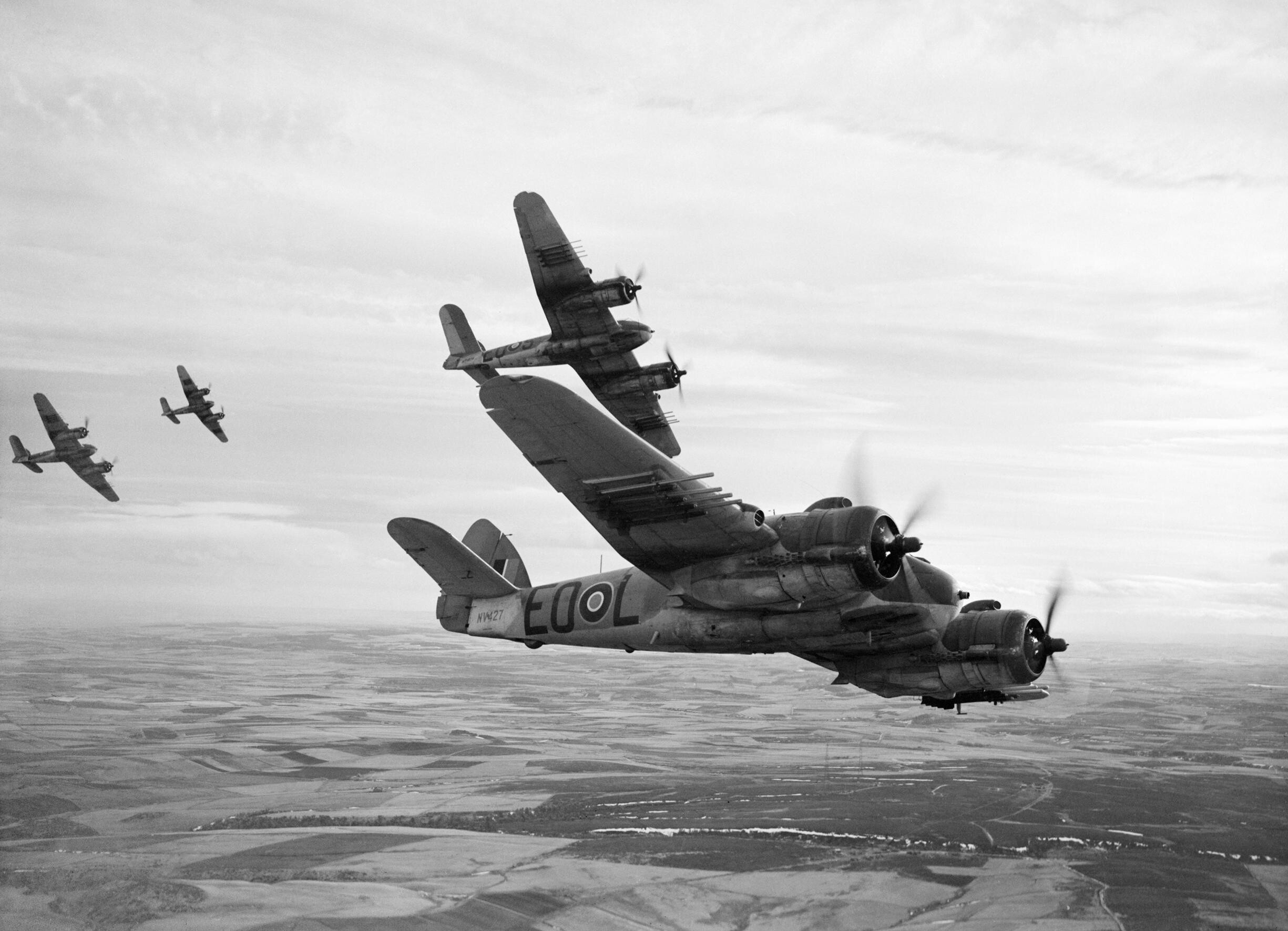 Bristol Beaufighter Mk Xs of No. 404 Squadron RCAF based at Dallachy in Scotland, February 1945. Beaufighter TF Mark Xs (NV427 'EO-L' nearest) of No. 404 Squadron RCAF based at Dallachy, Morayshire, breaking formation during a flight along the Scottish coast.